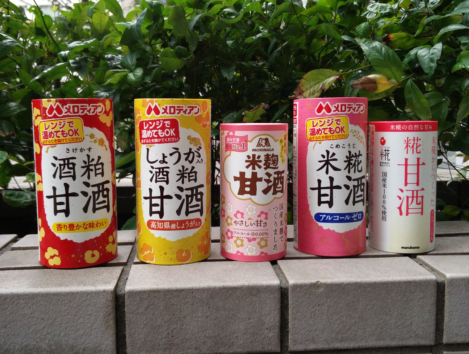 Several types of amazake bought from a supermarket in Tokyo, Japan.